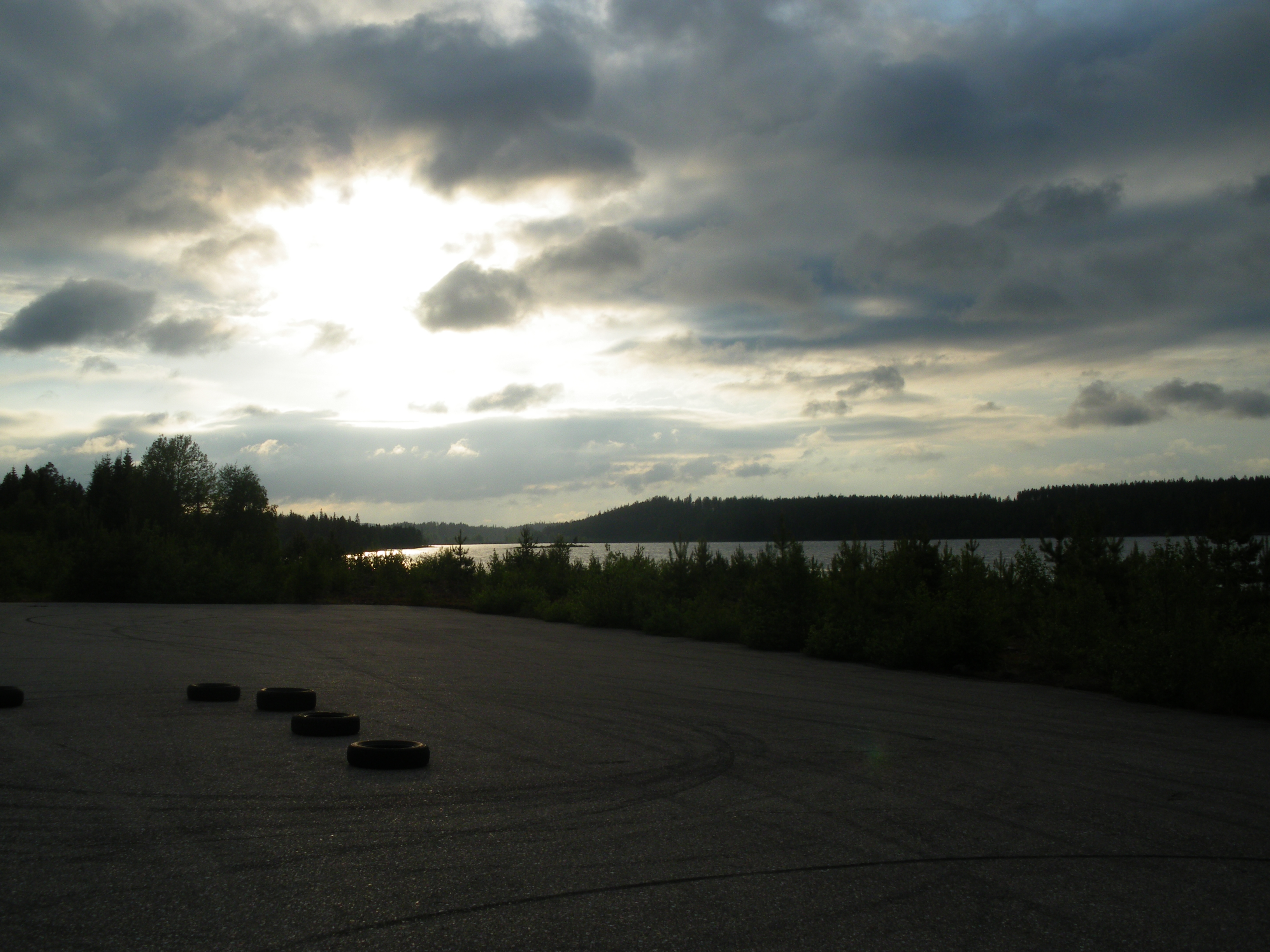 An evening scenery from earlier saw mill towards northwest, Pesiönlahti.